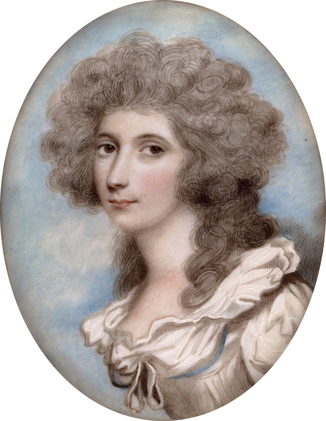 Caroline Price (1755-1826) oval, 6.4 cm high